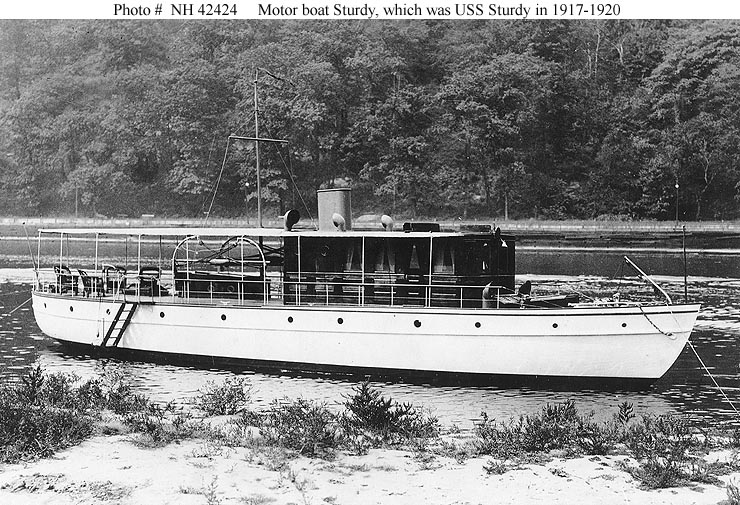 Motorboat Sturdy prior to her United States Navy service as patrol boat USS Sturdy (SP-82)